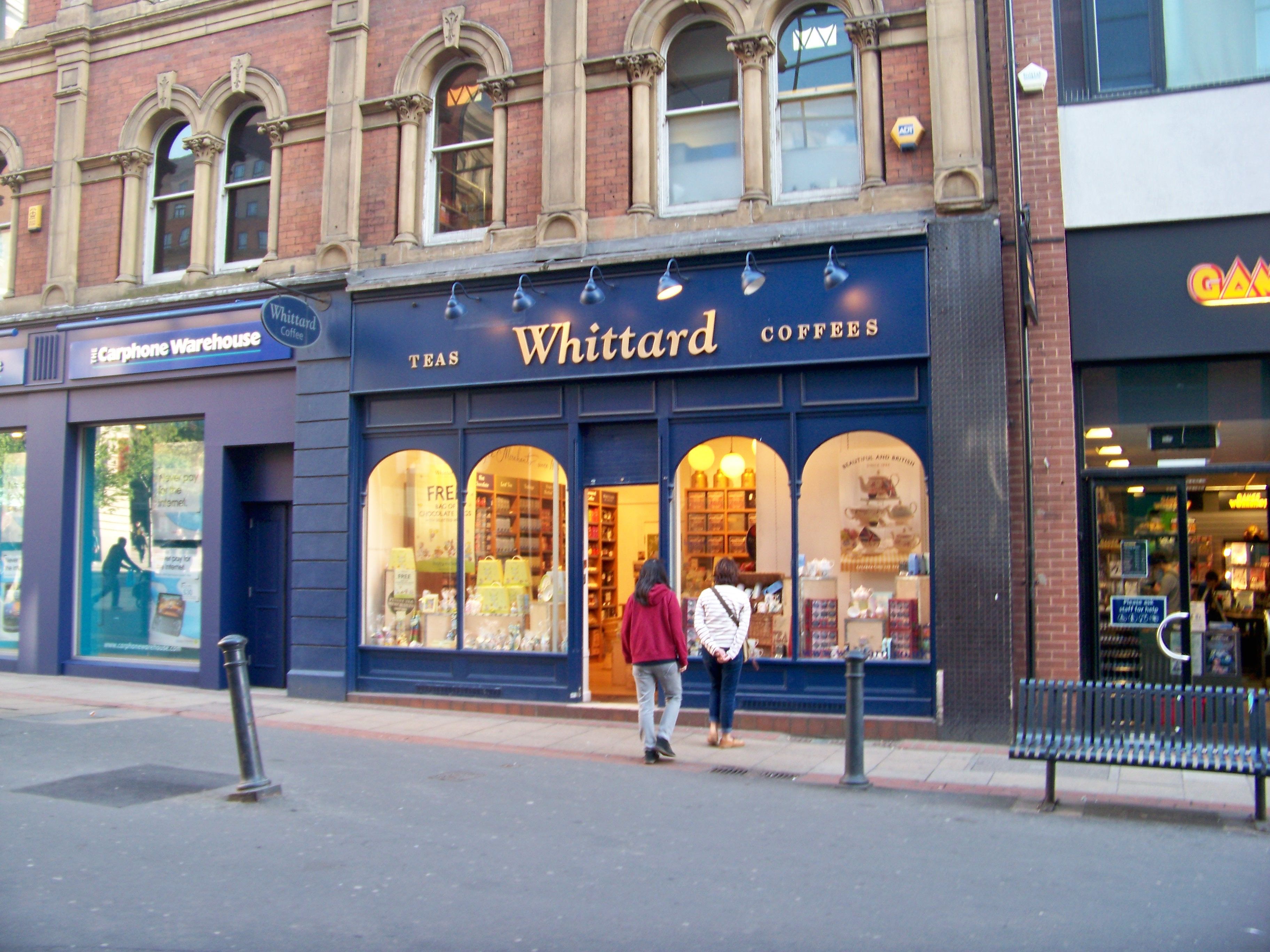 Leeds